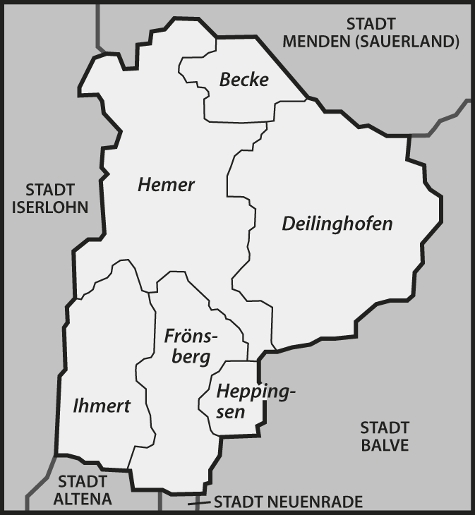 Map of the former municipalities in the area of Hemer, Märkischer Kreis